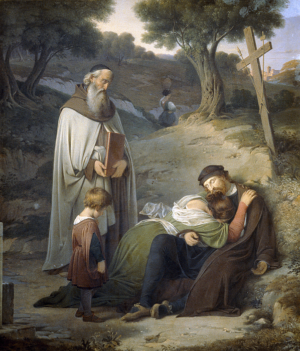 "Correggio's Death", painting by Albert Küchler from 1834 inspired by a tragedy by Adam Oehlenschläger. In the holdings of Thorvaldsens Museum in Copenhagen, Denmark. More info here.